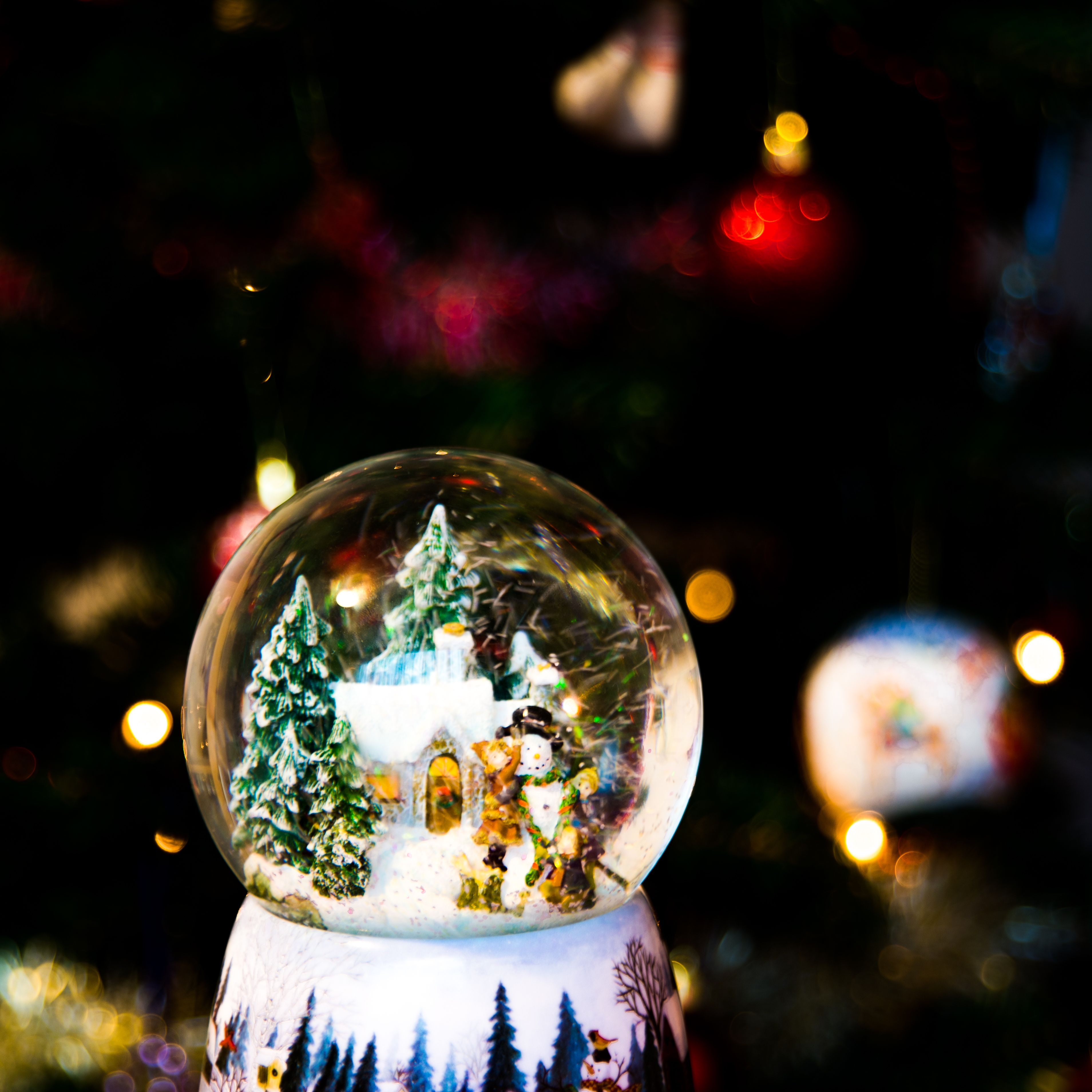 Darren Coleshill 2016-12-21